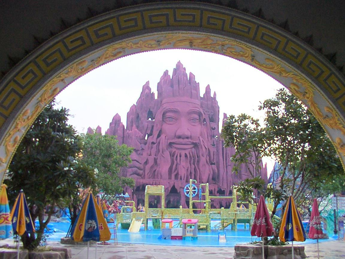 The Tiên Dong Beach in Suoi Tien Cultural Amusement Park in Saigon, Vietnam